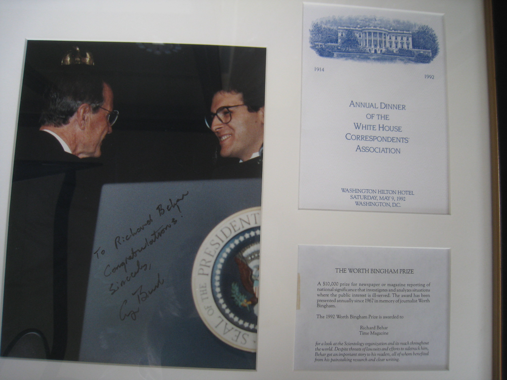 Worth Bingham Prize award, and letter about it from U.S. President George H.W. Bush, to journalist Richard Behar